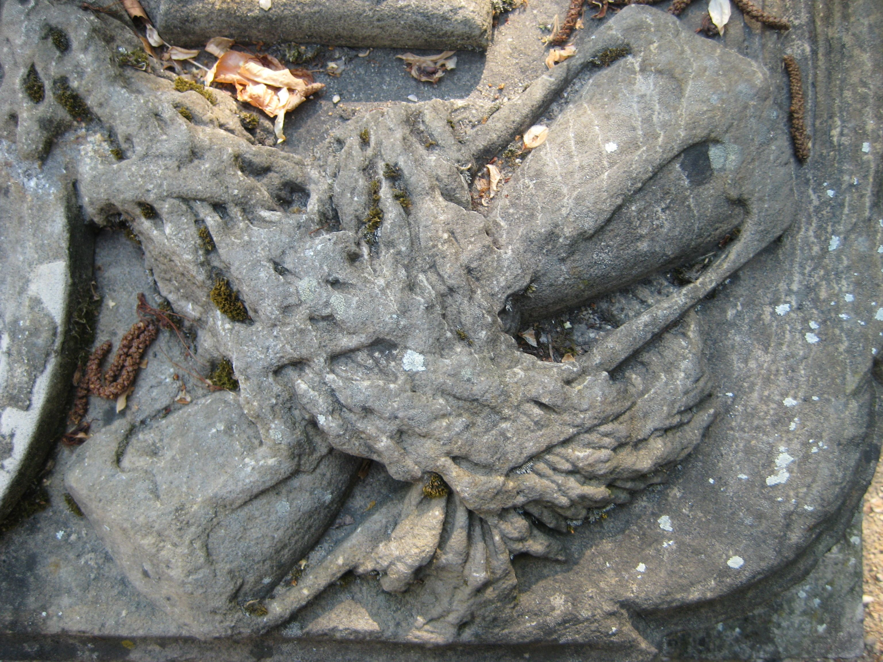 relief of an hourglass as an allegory of death on the sarkophagus of Elisabeth von Kottulinsky (died 1774) on Invalidenfriedhof cemetery in Berlin